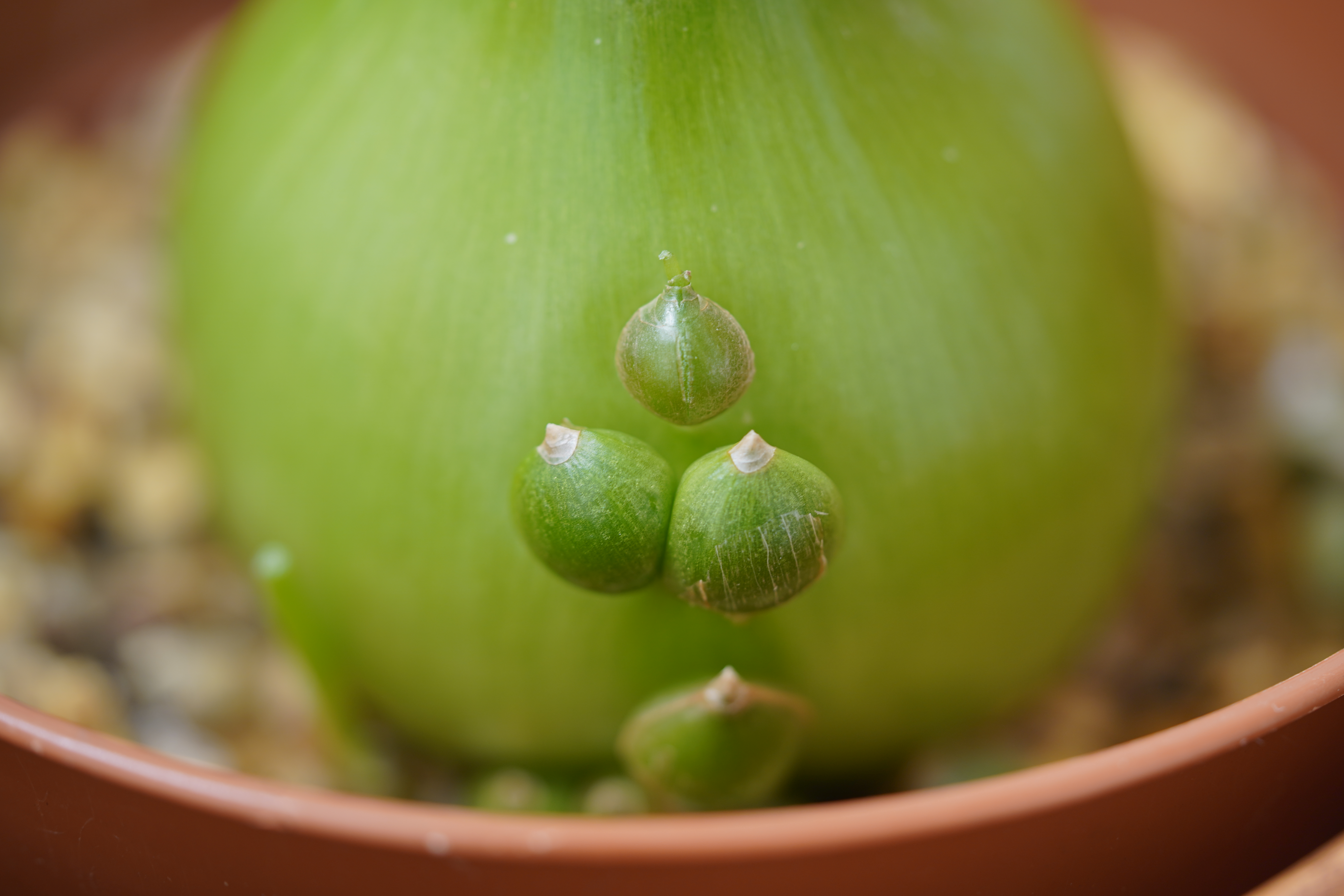 Albuca bracteata bulblets